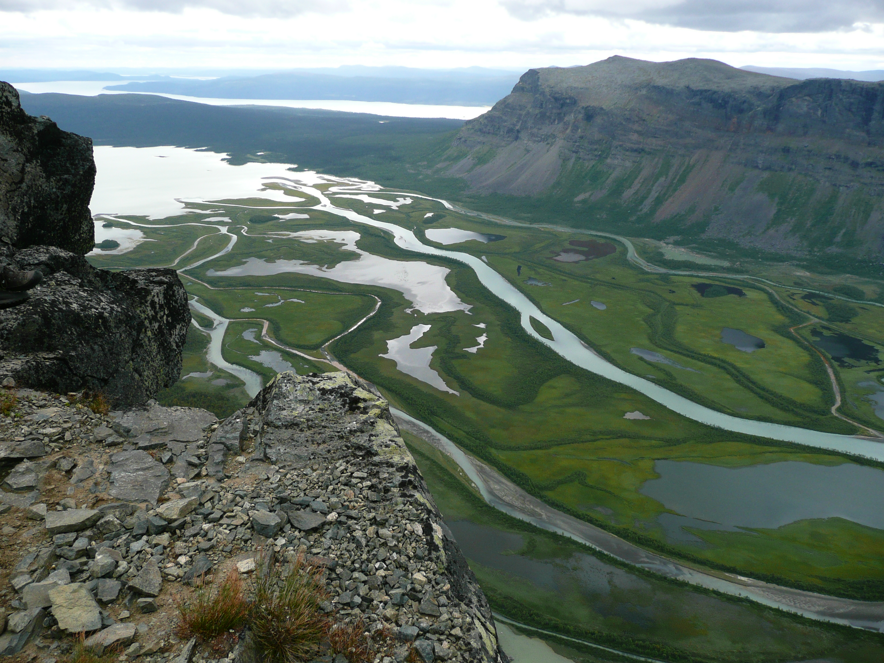 Sweden - Sarek National Park